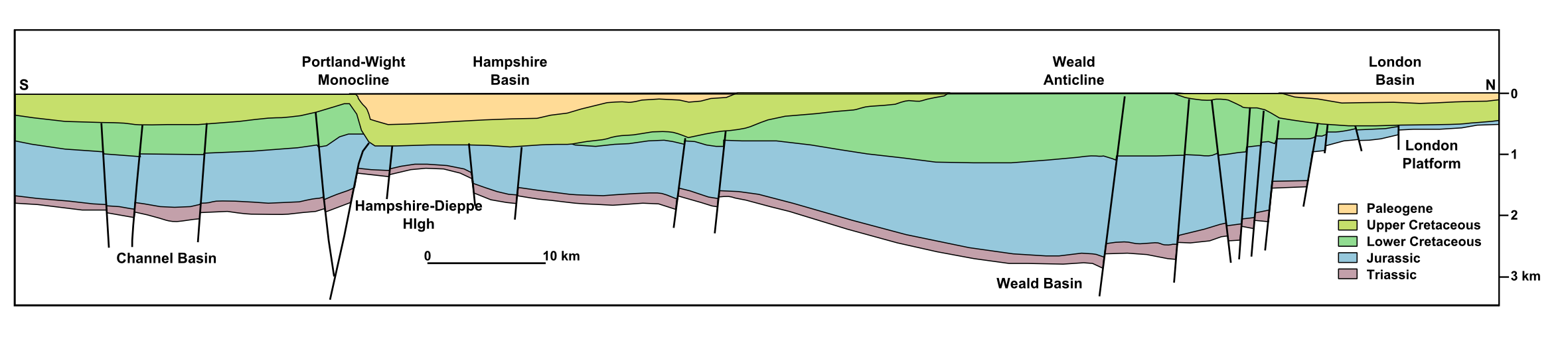 Cross-section from the English Channel to just west of London, based on published section in Penn et al. 1987, Principal features of the hydrocarbon prospectivity of the Wessex-Channel Basin UK, In: Brooks & Glennie (eds) Petroleum Geology of NW Europe, Graham & Trotman